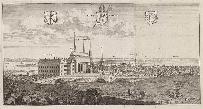 The city of Linköping in Sweden (Linköping) Engraving made sometime between 1690-1710 Scanned by me from Erik Dahlberg, Svecia Antiqua et Hodierna, facsimile, 1983 256 color black&white jpg. 200 dpi.